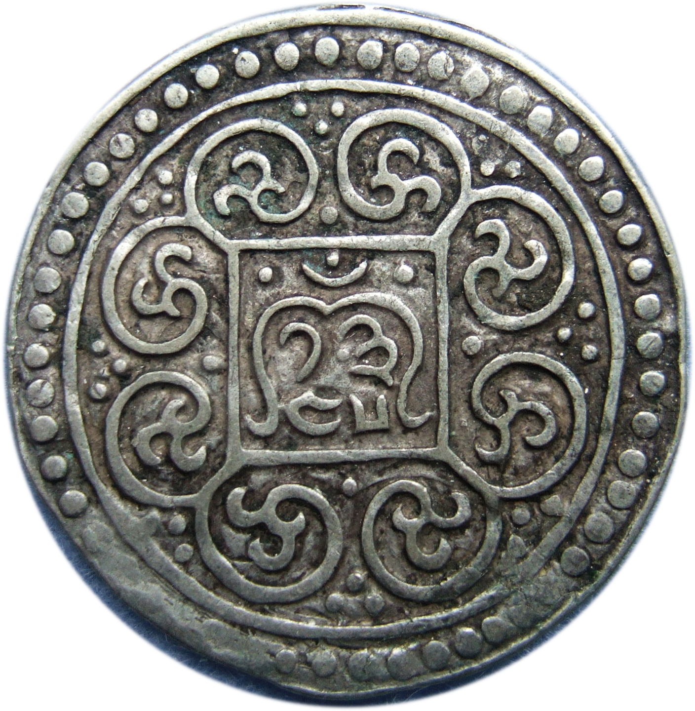 Tibetan silver coin. Type: Kong-par tangka, dated 13-45 (=1791)